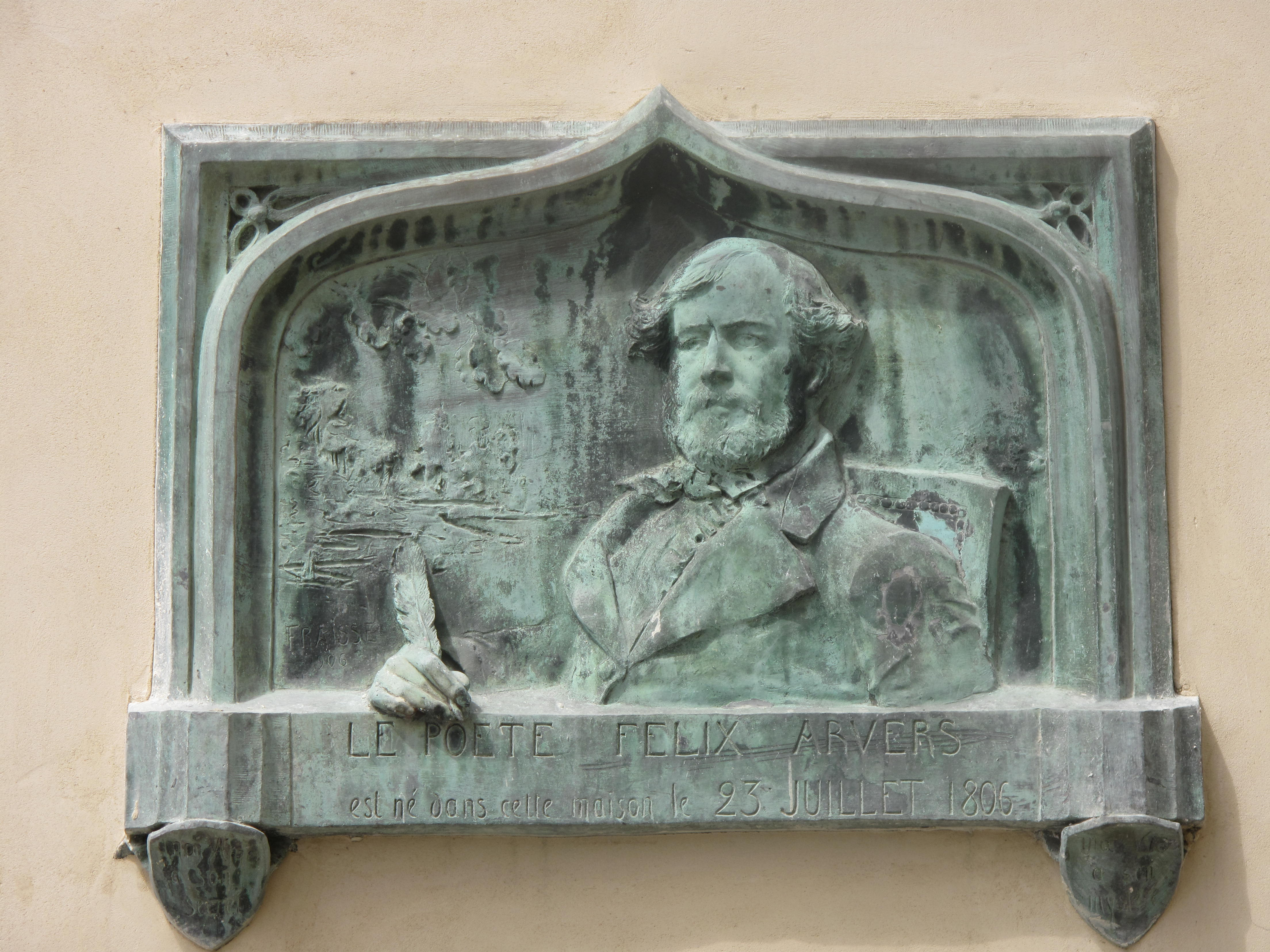 Plaque on the house where the poet Félix Arvers was born on 23 july 1806, 1 rue Budé, Paris 4th arr. on the île Saint-Louis.